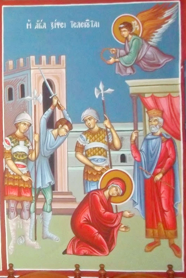 Paraskevi of Rome is decapitated